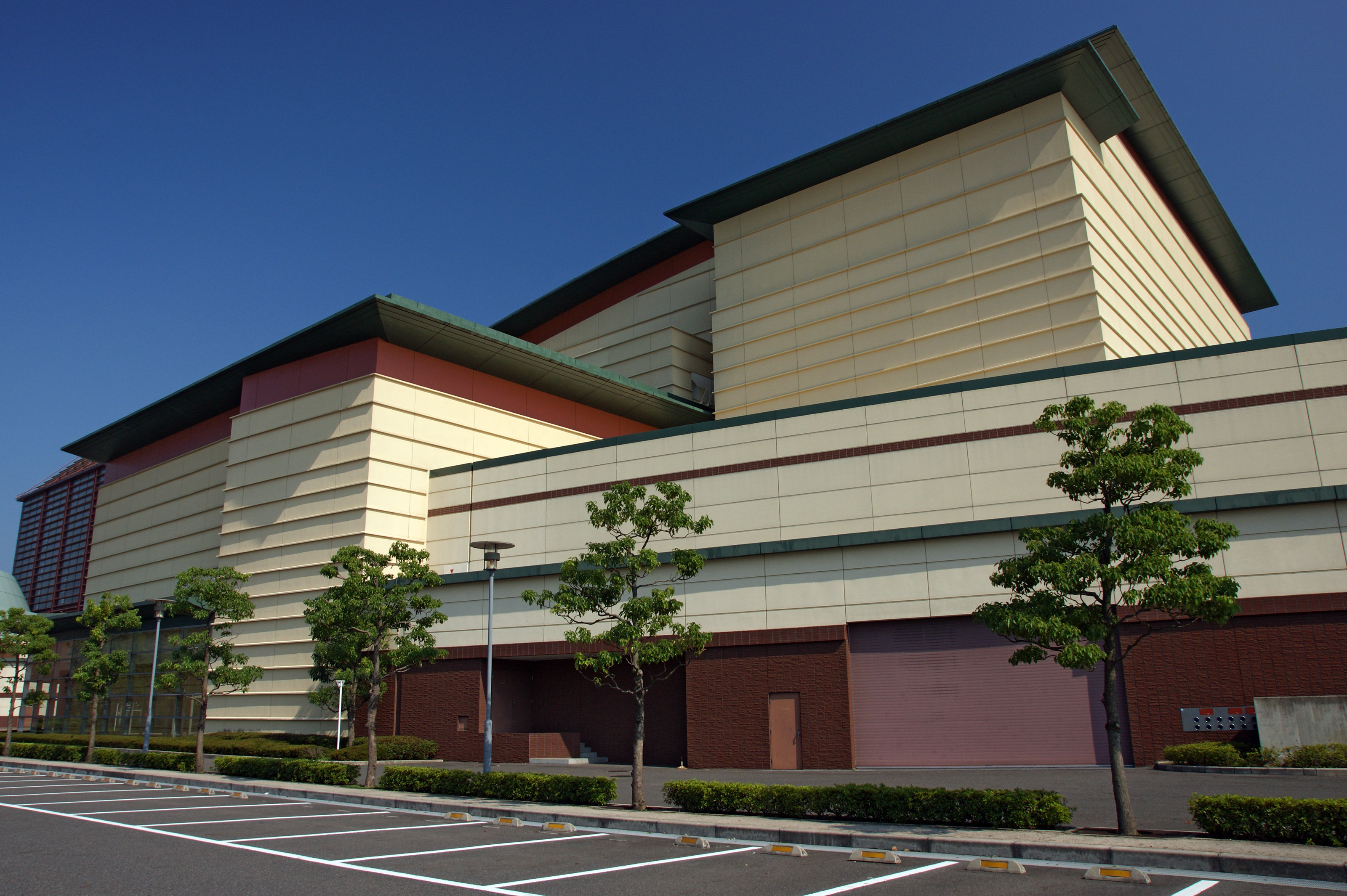 Kurayoshi Park Square in Kurayoshi, Tottori prefecture, Japan